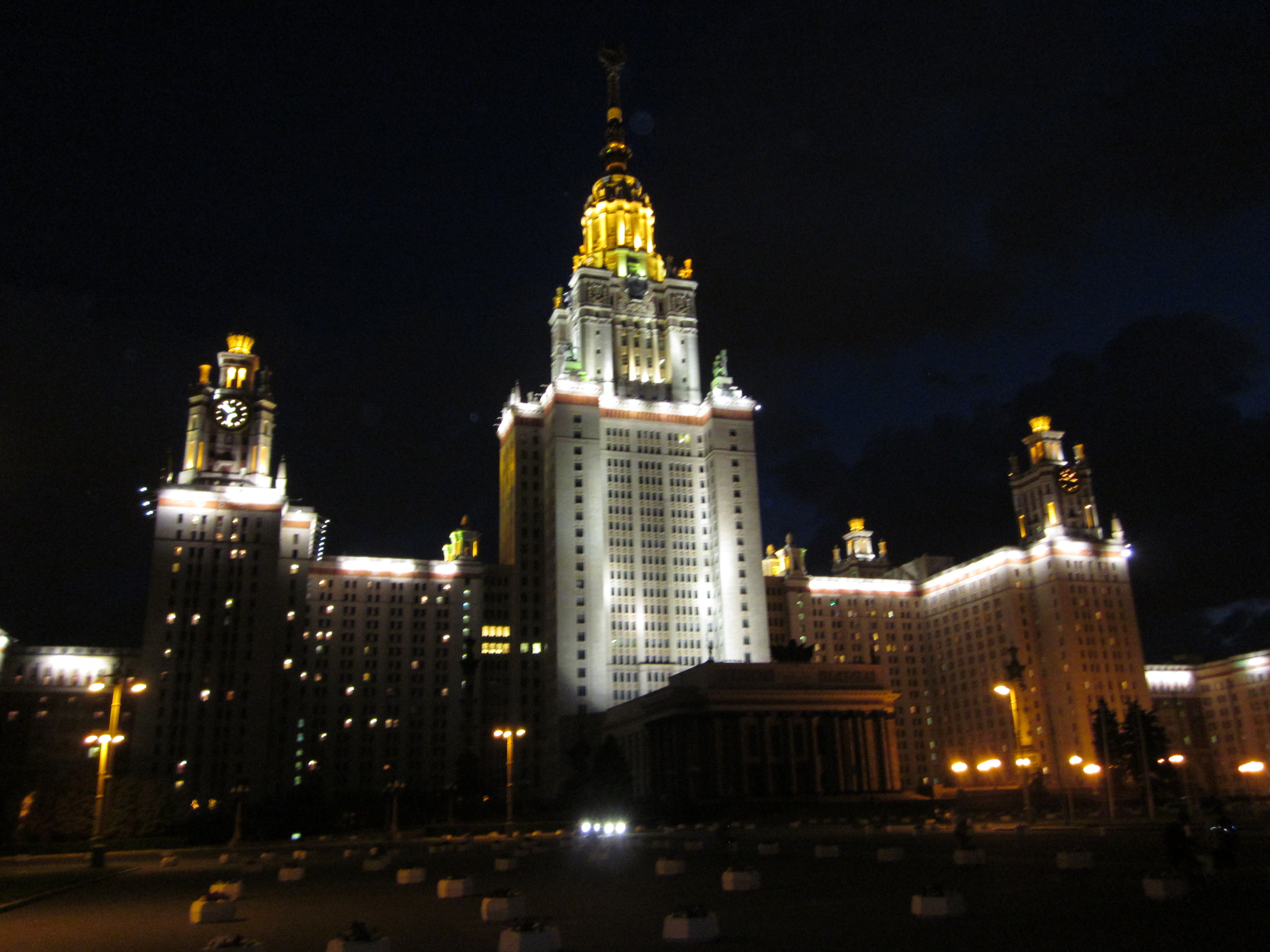 Main building of Moscow State University, Moscow, Russia